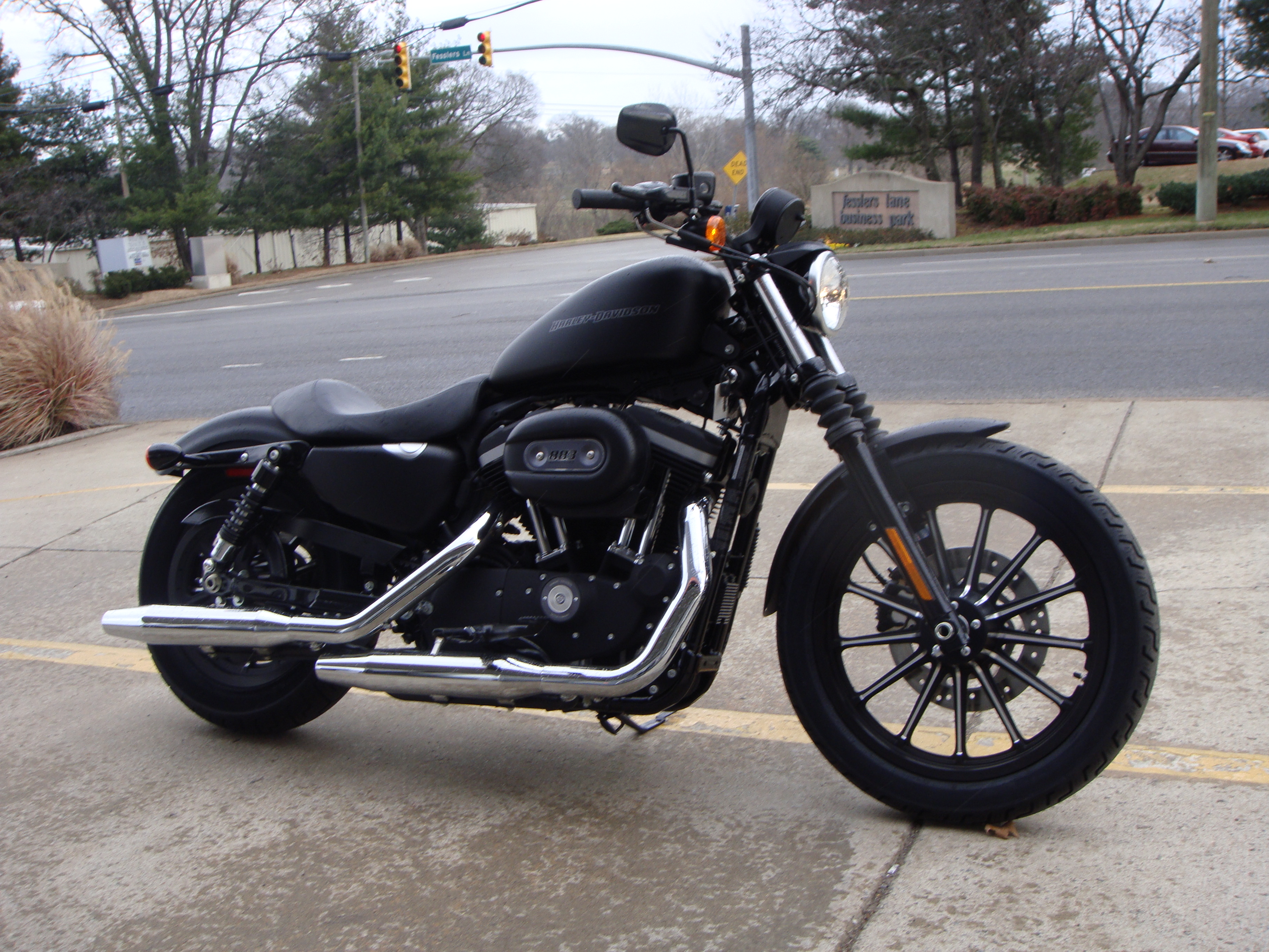 Right side of a new Harley Davidson XL883N Iron as I am picking it up from the dealer in Nashville, TN.